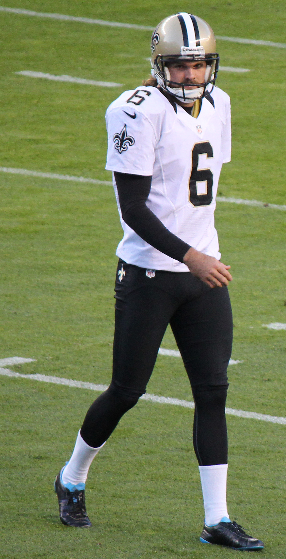 Thomas Morstead, a player on the National Football League.